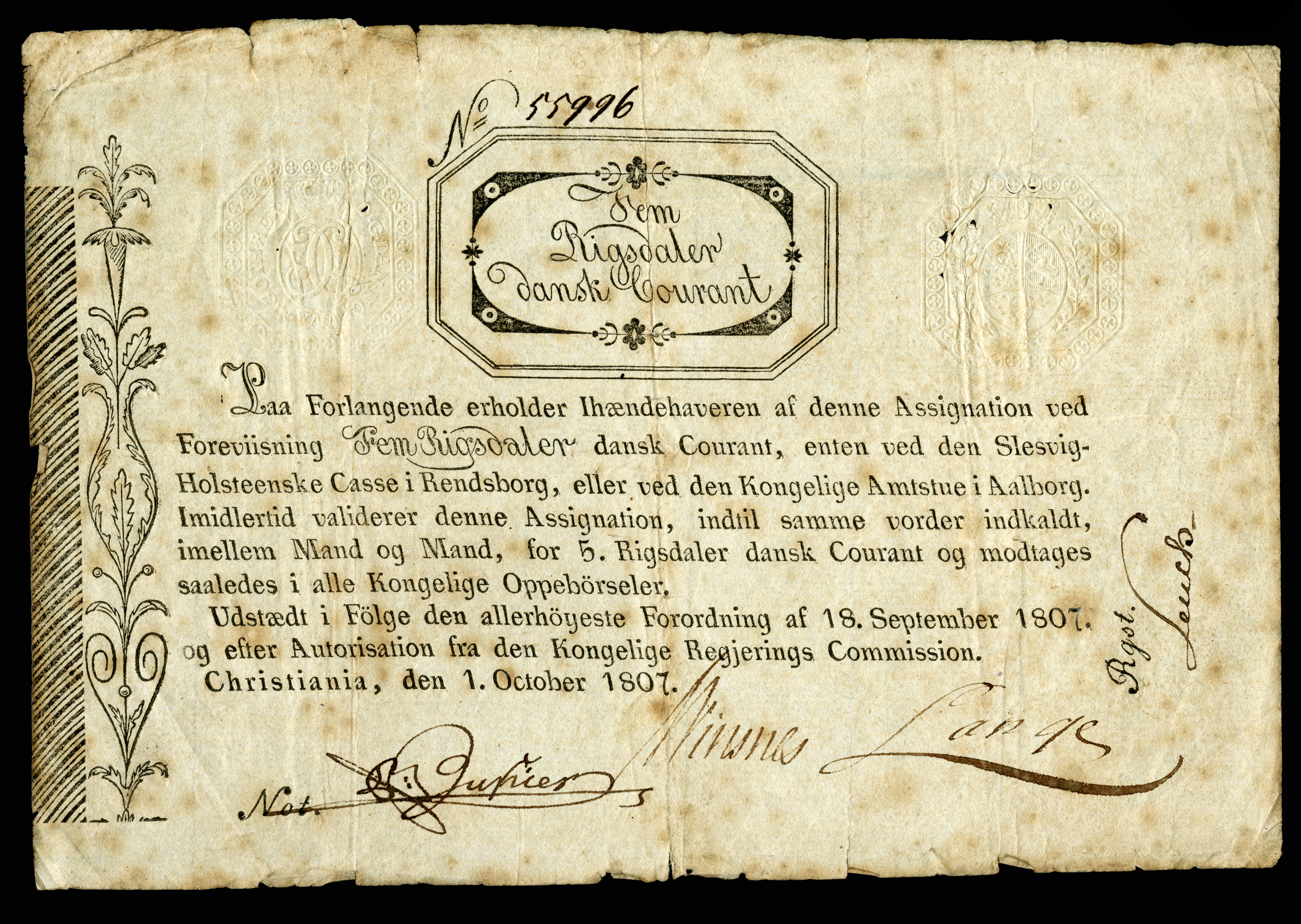 Kingdom of Norway, Regerings Kommission, 5 Rigsdaler Courant (1807). Norway circulated one issue of paper currency in 1695 and following a hiatus of just over a century, resumed issuing banknotes in 1807. "On request, relieve the bearer of this instrument by presenting five rigsdaler dansk courant, either through the Schleswig-Holstein Cashier's Office in Rendsborg or through the Royal District Office in Aalborg. Meanwhile validate this instrument until the same be called for, between man and man, for five rigsdaler dansk courant and receive it thus in all Royal revenues. Issued according to the highest Regulation of 18 September 1807 and after authorization from the Royal Administration Commission. Christiania, the 1 October 1807."